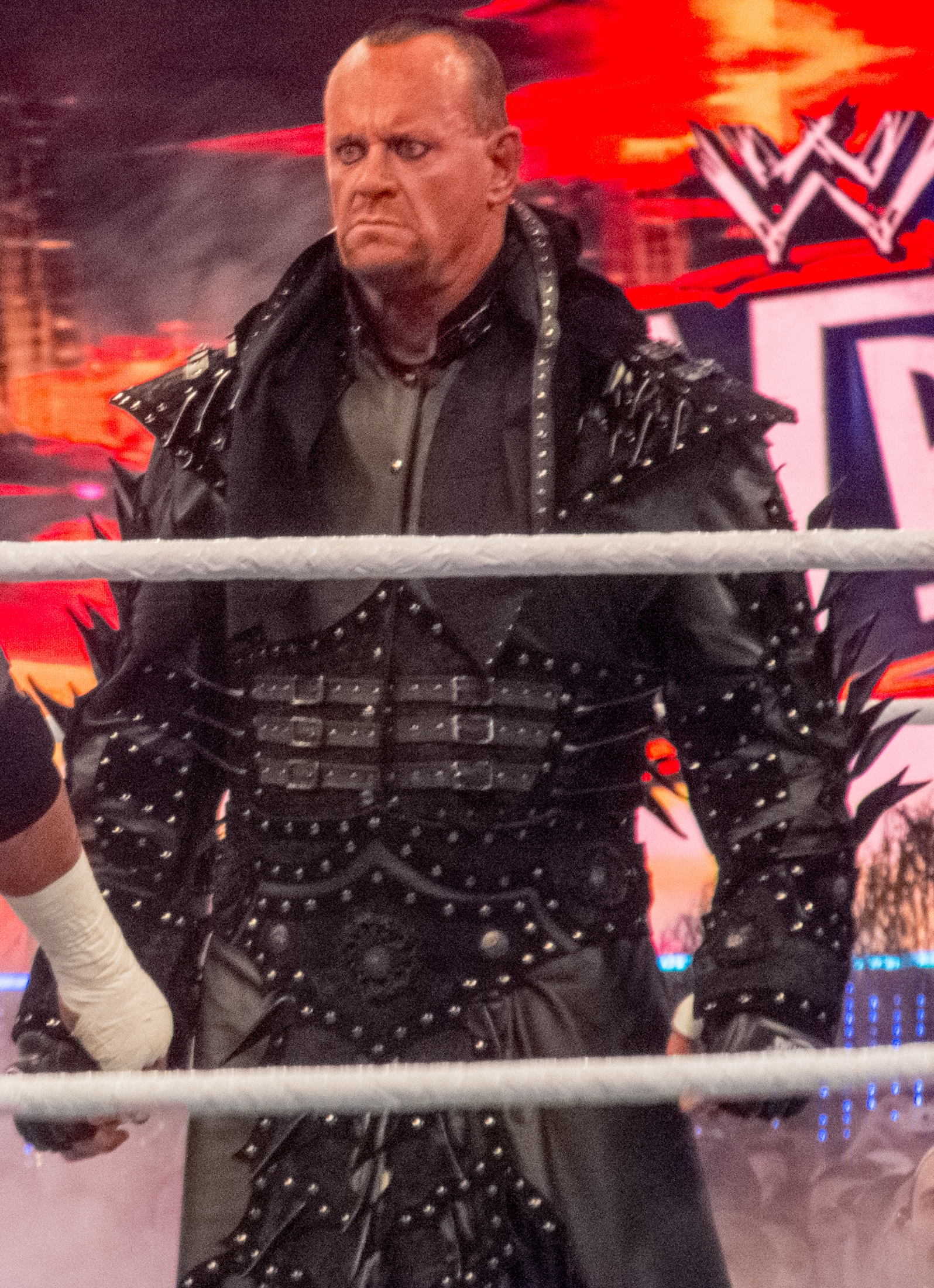 The Undertaker at WrestleMania 28, cropped from larger image for which accreditation has been given.